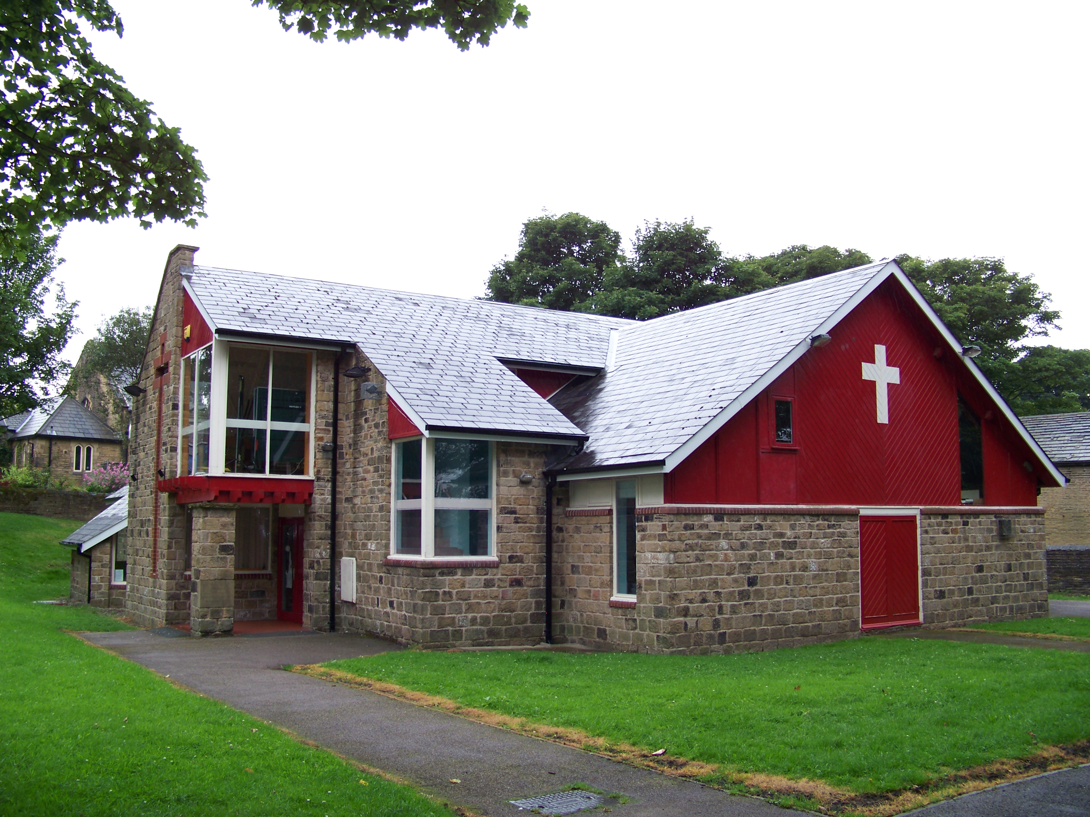 Clayton Baptist Church, built in 1984 and opened for worship on the September 1, 1984. Located on School street, Clayton, West Yorkshire, England.